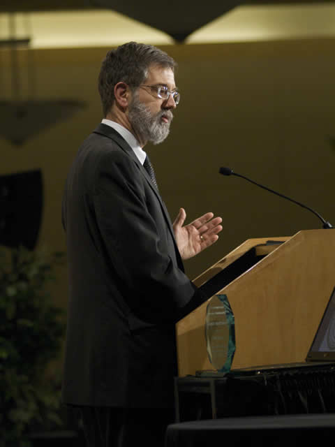 Department of Justice Photo Library caption: "Deputy Solicitor General Edwin Kneedler was presented ENRD's Muskie-Chafee Award."